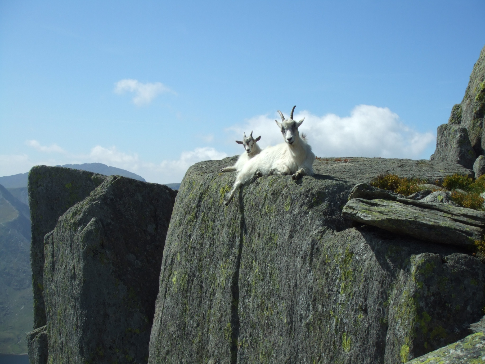 Mountain Goats on Tryfan.Taken by James@hopgrove, June 2006.